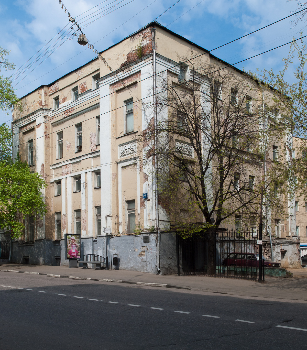 Novaya Basmannaya Street, Moscow.